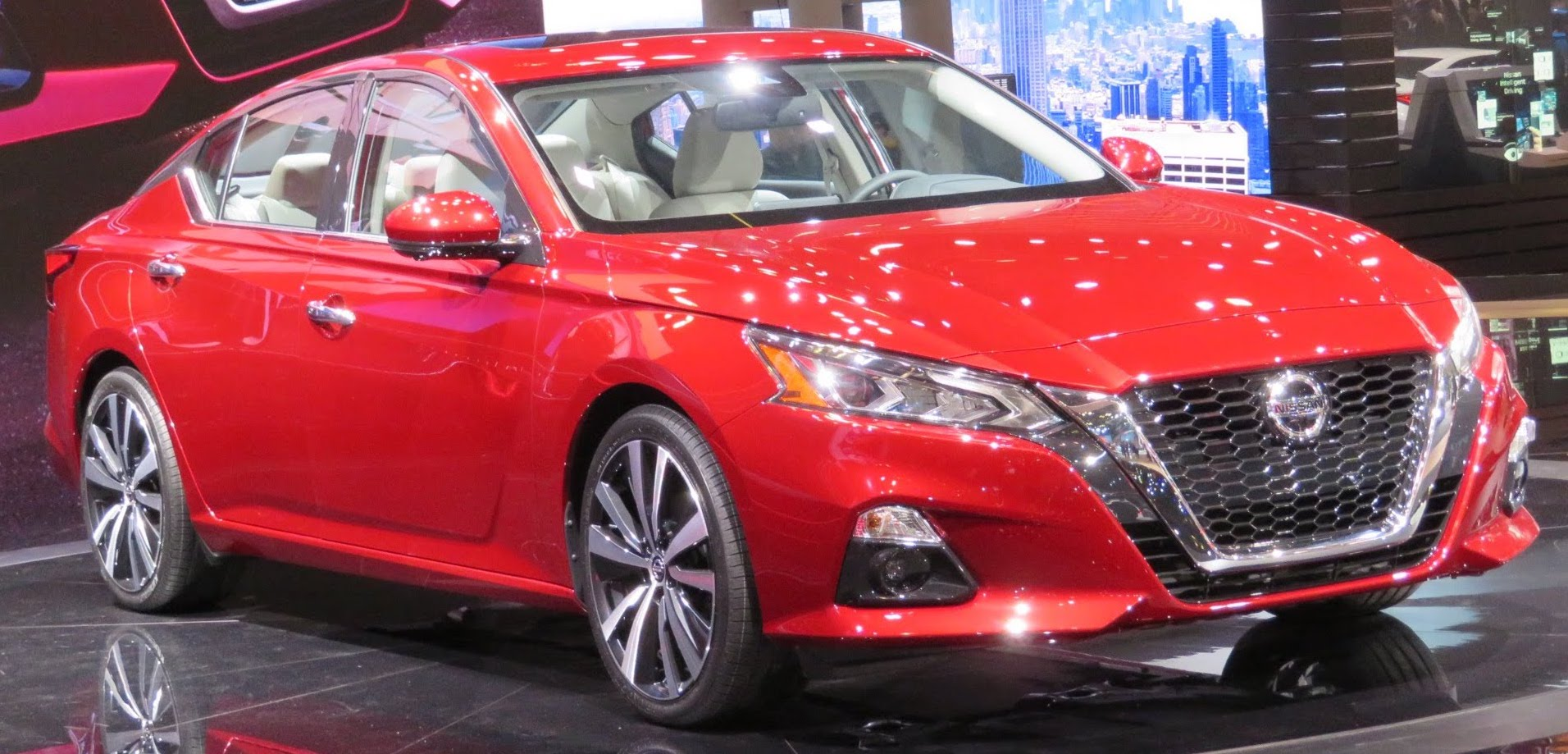 In New York International Auto Show, at Manhattan, New York